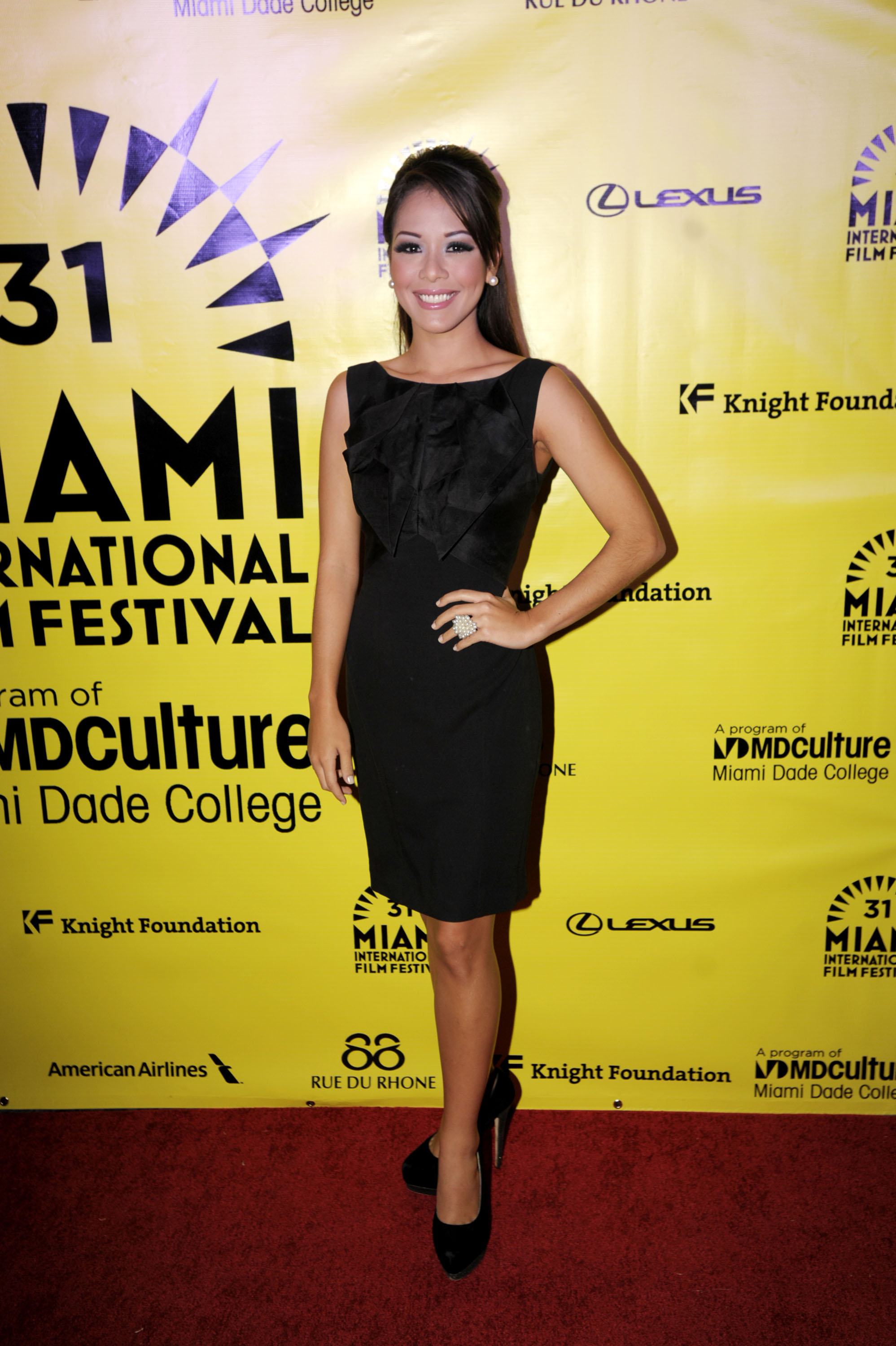 CRISTO REY actress Akari Endo at the 2014 Miami International Film Festival Photo by: World Red Eye